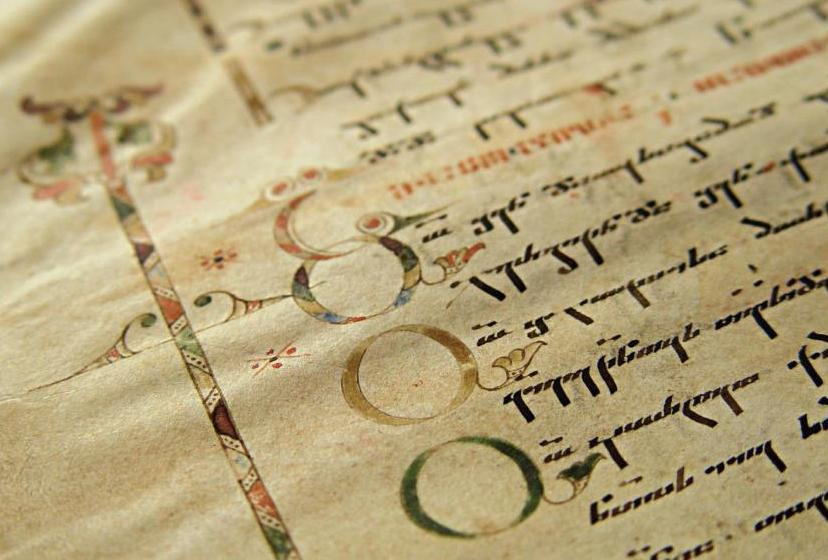 Mikael Modrekili X c.